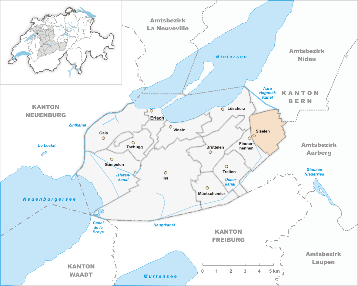 Municipality Siselen